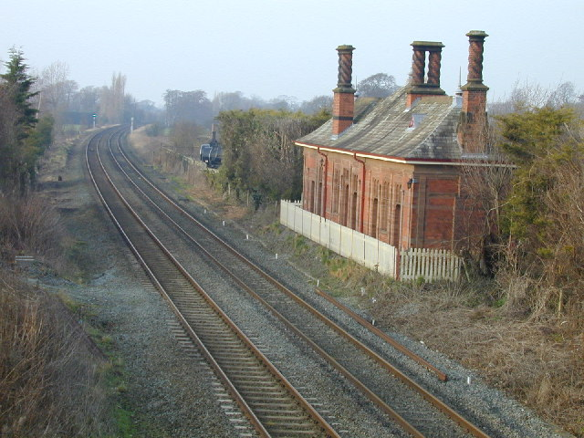 Waverton station building.